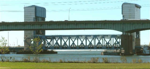 Tomlinson Bridge, New Haven, Connecticut, from Criscuolo Park.